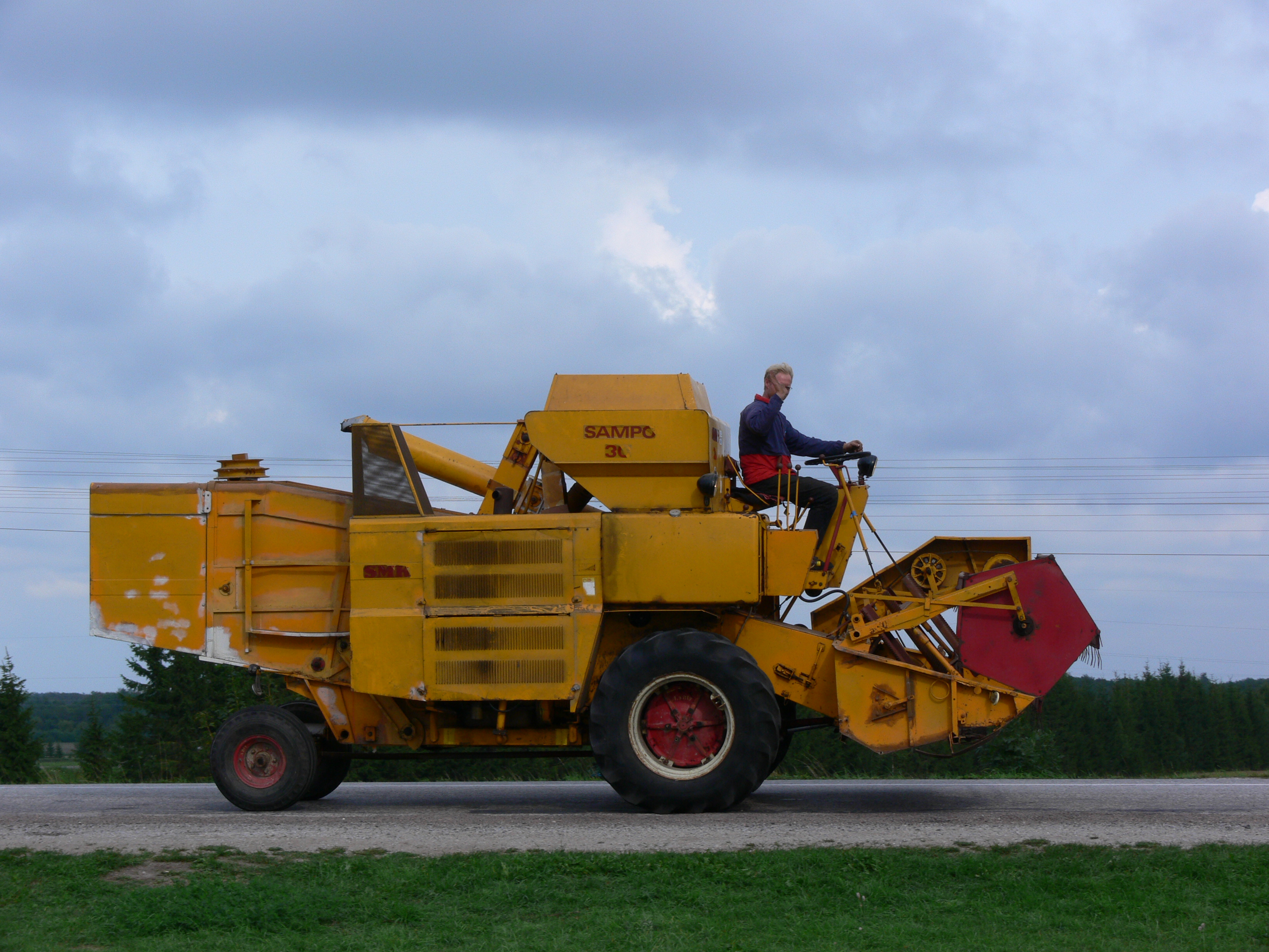 Finnish (SMR) Sampo 30 combine harvester (2,4 m cutting width, built ca. 1967–1970) on a road, Saaremaa, Estonia.